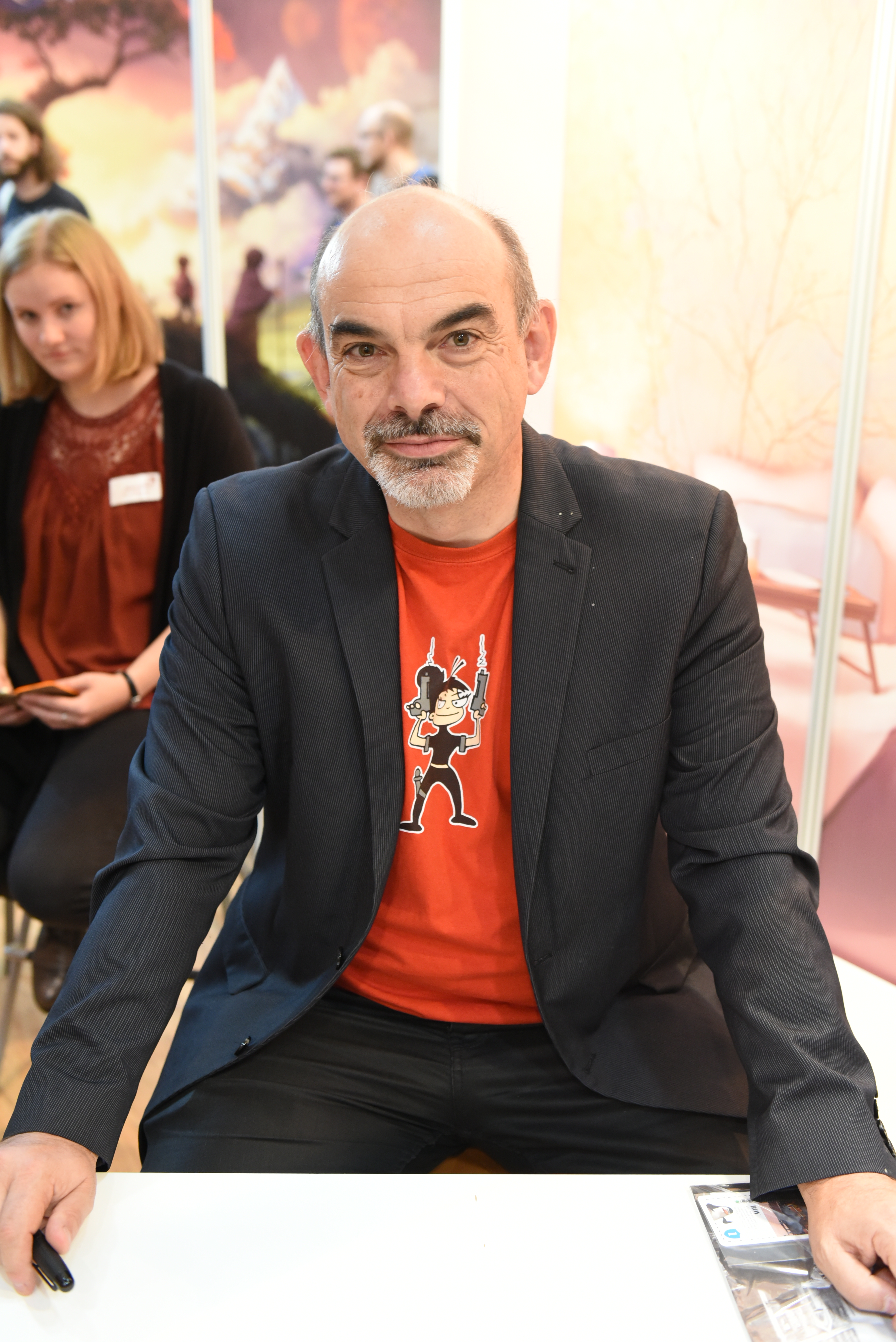 The game author Bruno Cathala at the board game fair Spiel '17 in Essen, Germany.